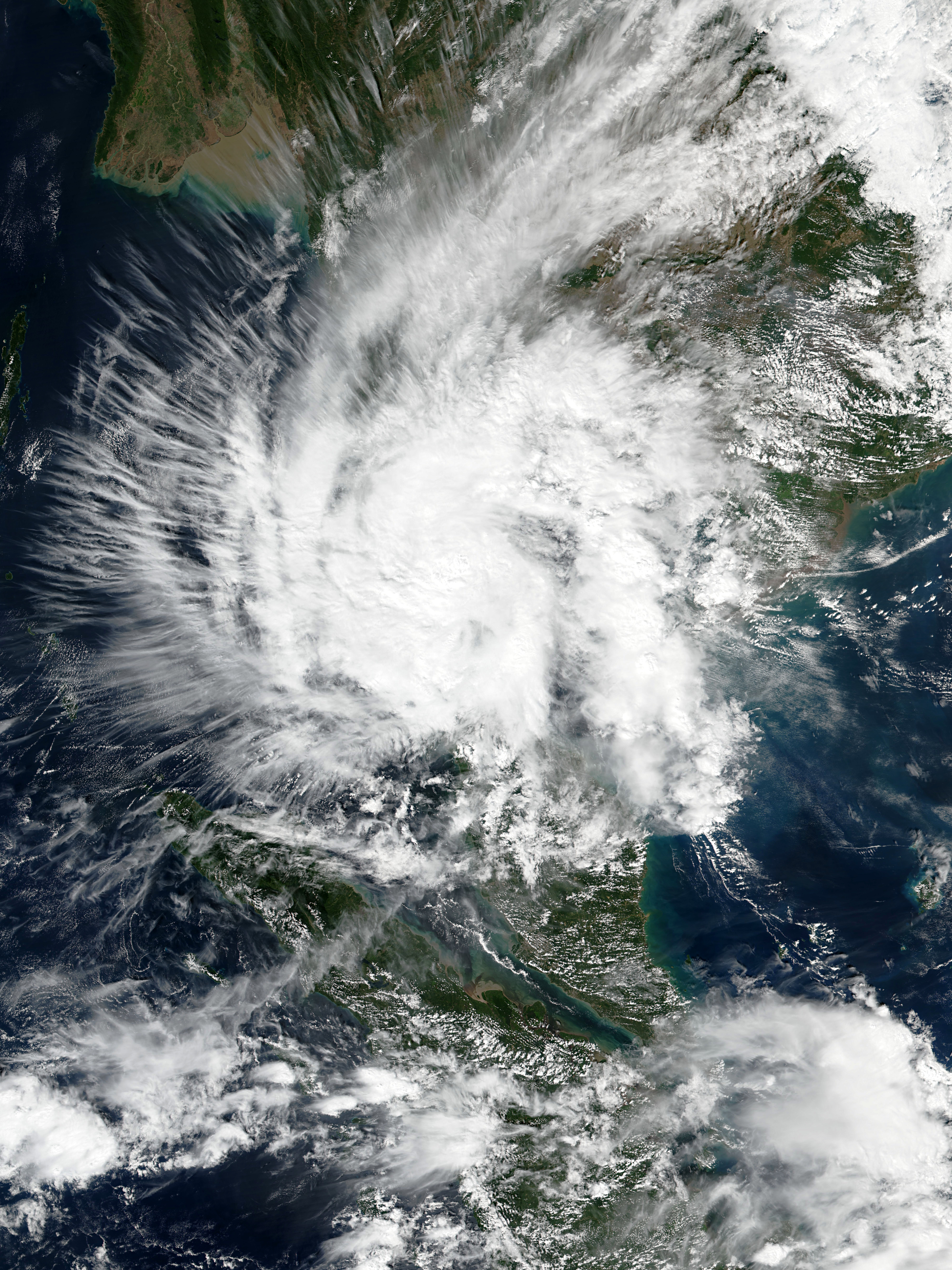 Tropical Storm Pabuk making landfall over southern Thailand at peak intensity on January 4, 2019.